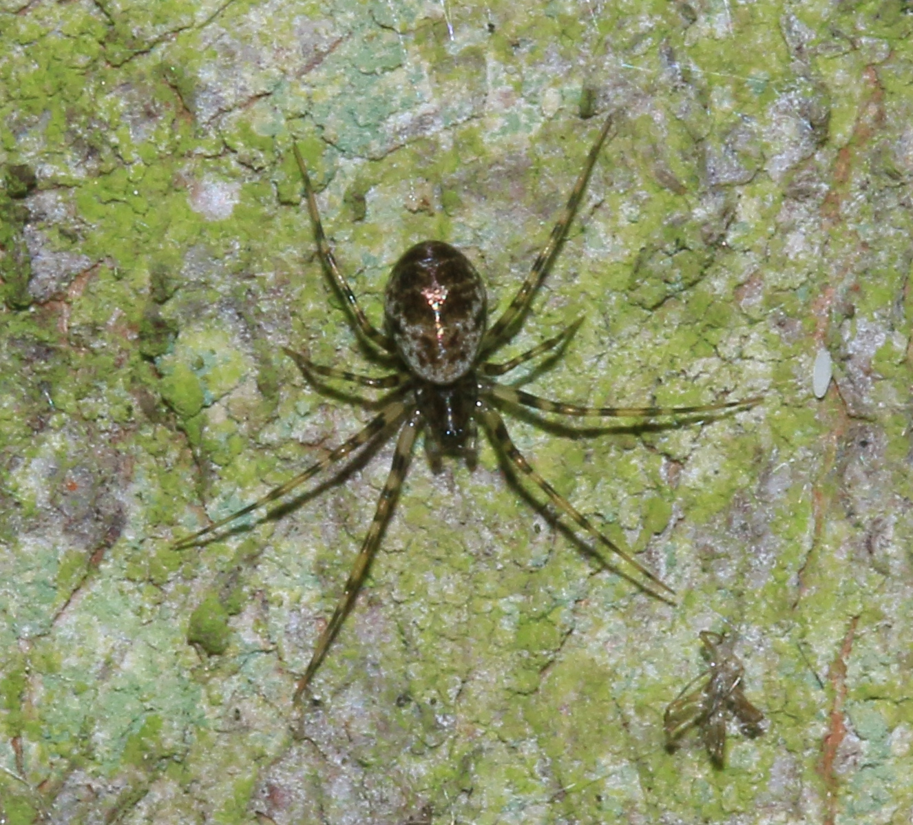 Butterdean Wood, East Lothian, Scotland